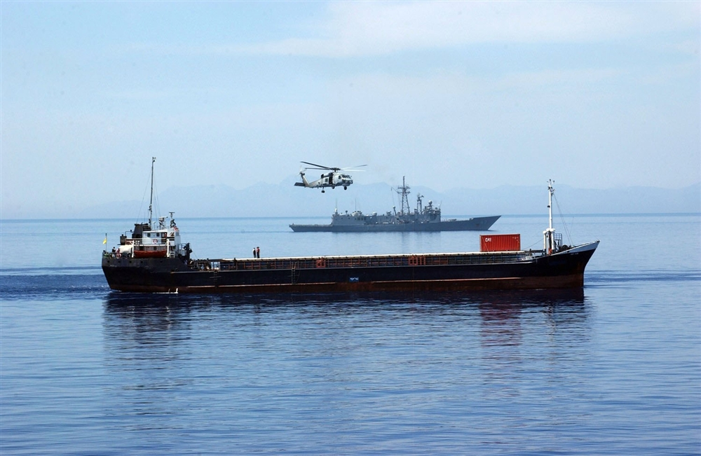 May 30, 2006 MEDITERRANEAN SEA – The crew of a SH-60B Seahawk helicopter from the guided missile frigate USS Nicholas (FFG 47)(background), inspects a cargo ship during Anatolian Sun 2006. The excercise, a Turkish-hosted proliferation security initiative, took place here May 24-26, 2006. The training focused on the interdiction of weapons of mass destruction proliferation-related shipments at sea, in the air, and on land. (DoD photo)